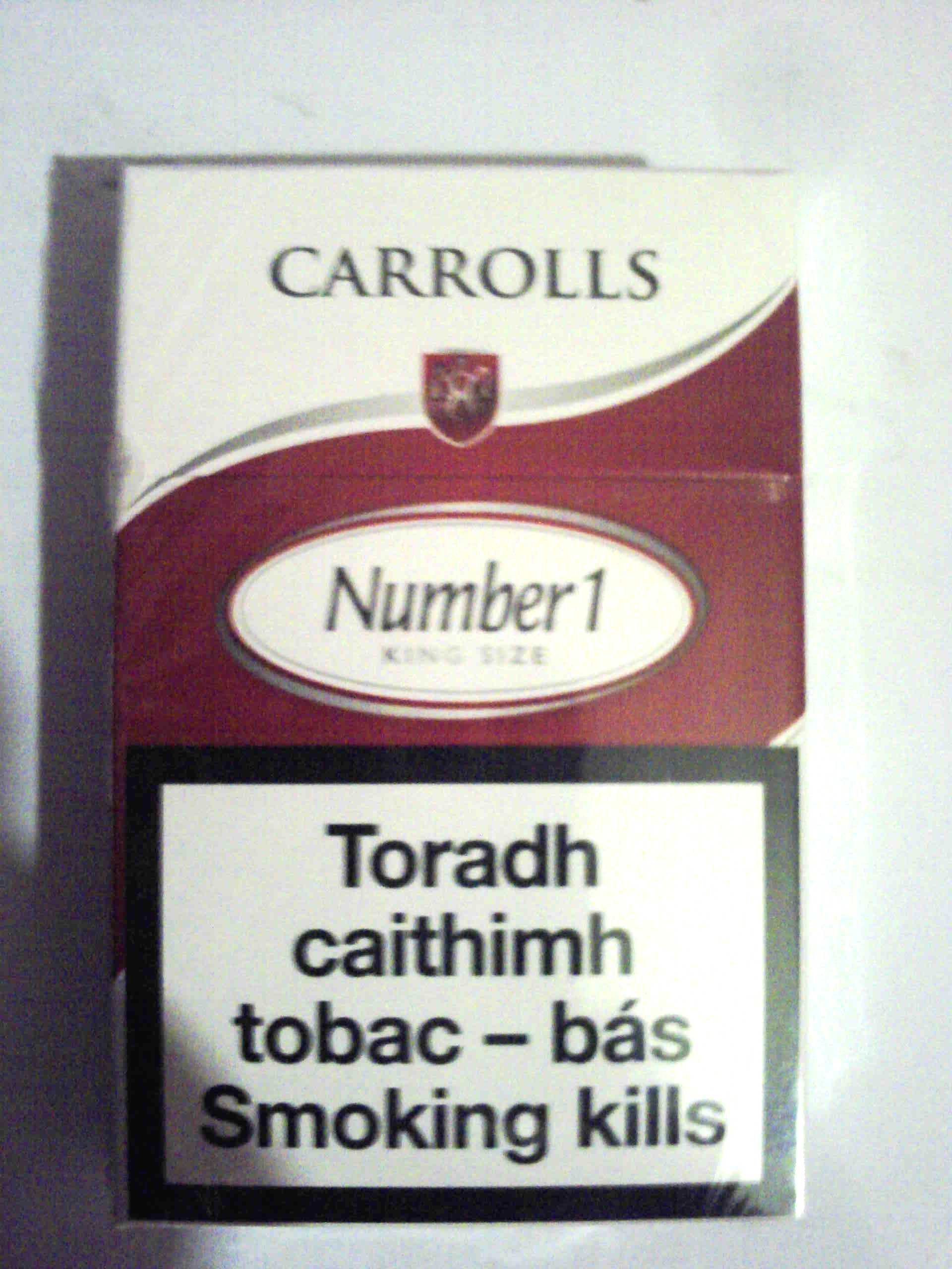 Carrolls